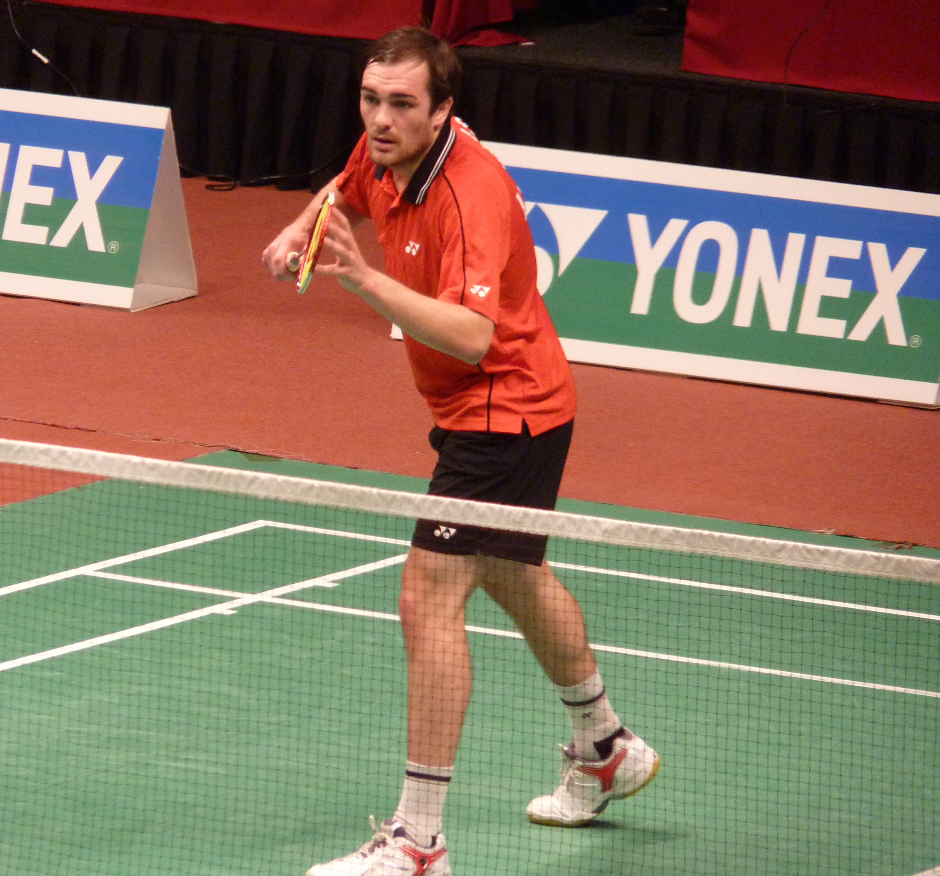 Scott Evans (IRL)